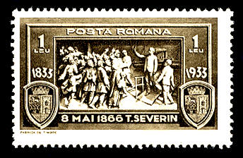 1933 Romanian Post, 1 leu, grey black, Series:Turnu Severin 100 years; Design:Constantinescu